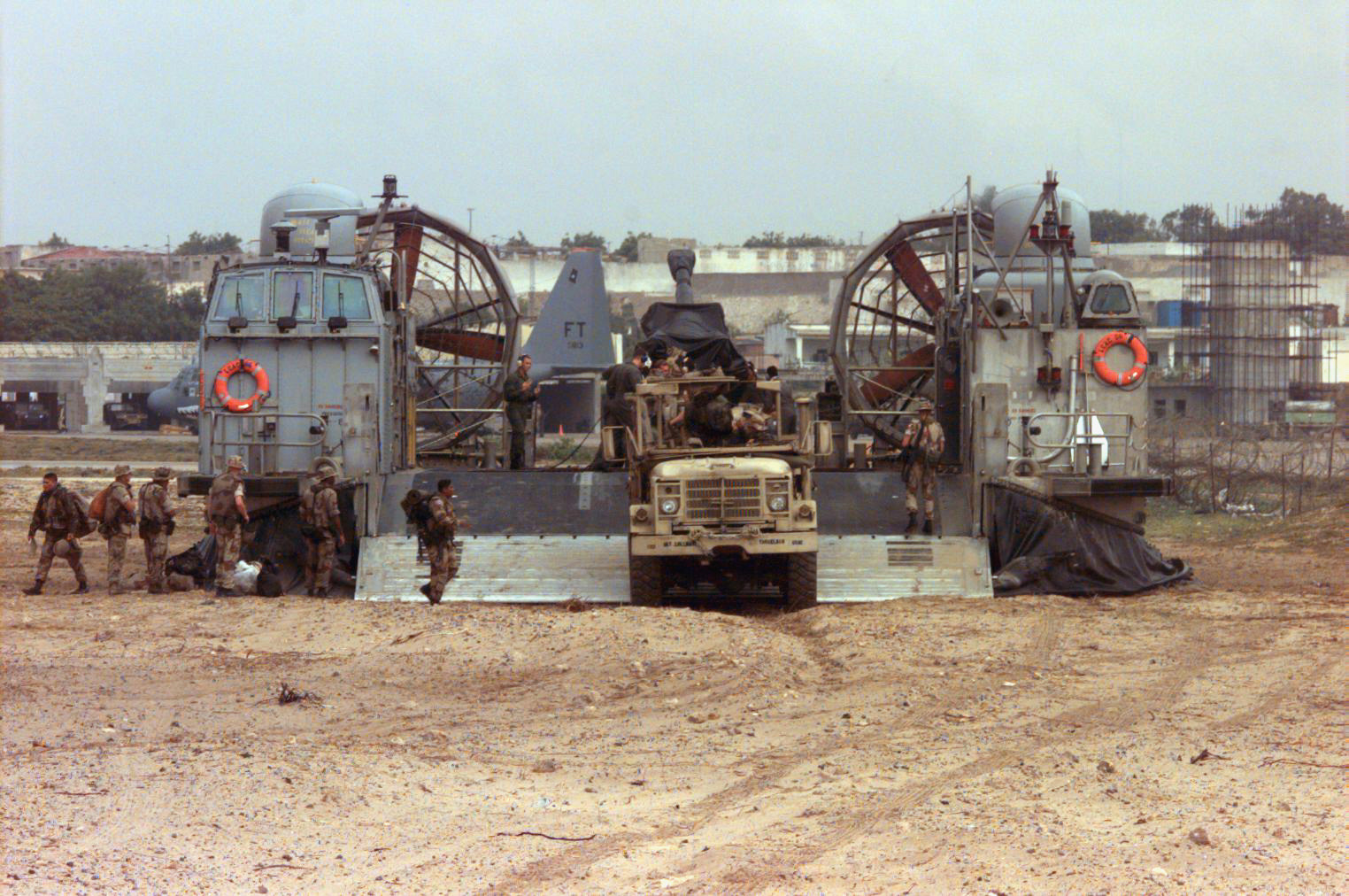 US Marines and their equipment loaded on board the Landing Craft Air Cushioned (LCAC) is sitting alongside the runway at the airport (Modadishu, Somalia). The LCAC, from the Assault Craft Unit Five (ACU-5) "Swift Intruders" of Camp Pendleton, CA, deployed on board the USS MOUNT RUSHMORE is part of the operation.